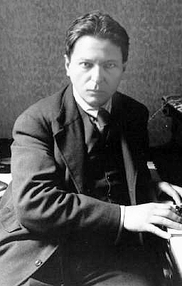 Romanian composer George Enescu (1881-1955) at the piano.